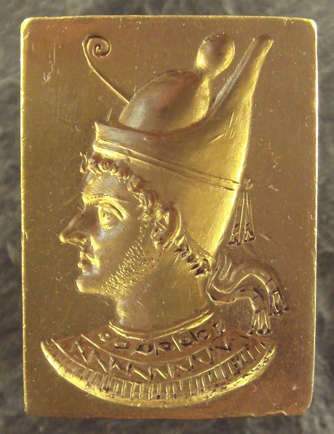 Ptolemy VI Philometor (Greek: Πτολεμαῖος Φιλομήτωρ, Ptolemaĩos Philomḗtōr, c. 186–145 BCE), a king of Egypt of the Ptolemaic dynasty, is shown wearing the pschent, the traditional double crown of Ancient Egypt. Greek artwork, 3rd–2nd century BCE.